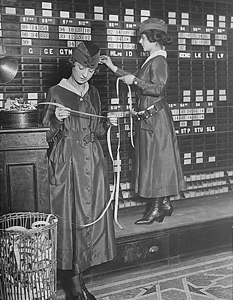 The Waldorf-Astoria Hotel is employing girls to operate tickers and stock exchange boards. The Waldorf is the first to employ girls in its various departments, in order to release men for war work., 11-12-1918.